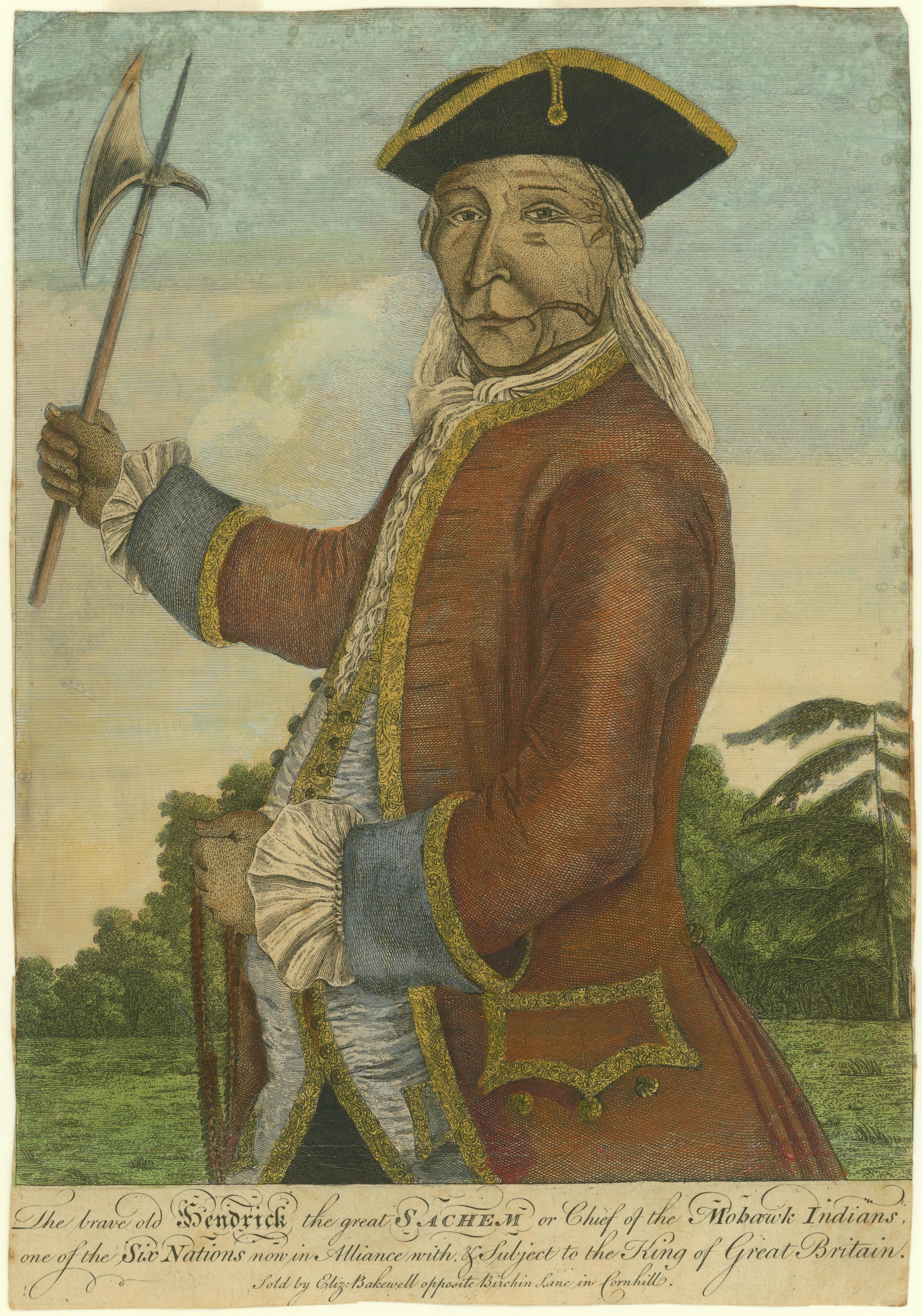 "The Brave old Hendrick the great sachem or chief of the Mohawk Indians", a hand-tinted engraving of Mohawk leader Hendrick Theyanoguin, published in London in 1755, based on an earlier lost portrait. According to historian Eric Hinderaker, artist William Williams painted a portrait of Hendrick in 1755 in Philadelphia, and this engraving may be based on that lost painting.